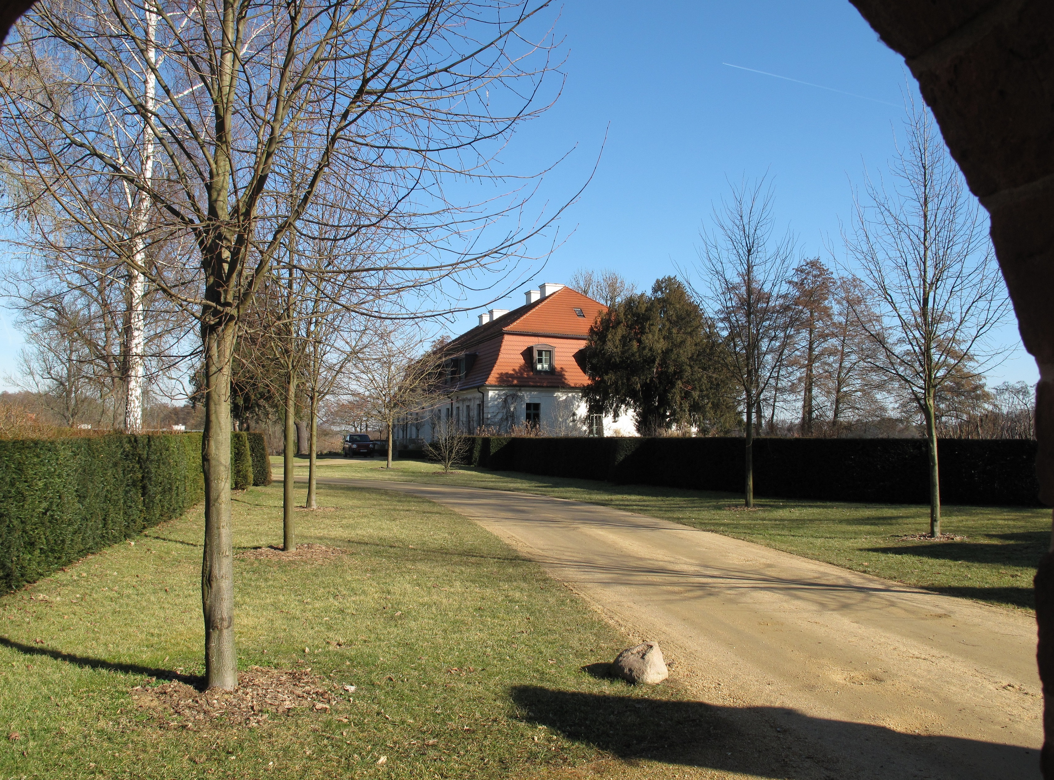 Listed Eibenhof in „Dorf Saarow“, part of Bad Saarow in the District Oder-Spree, Brandenburg, Germany. The Eibenhof, a former manor, is used today for cultural events and as private residence. The manor house was built in 1723 by the family „von Loeschebrand“.